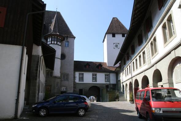 Burgdorf Castle courtyard.